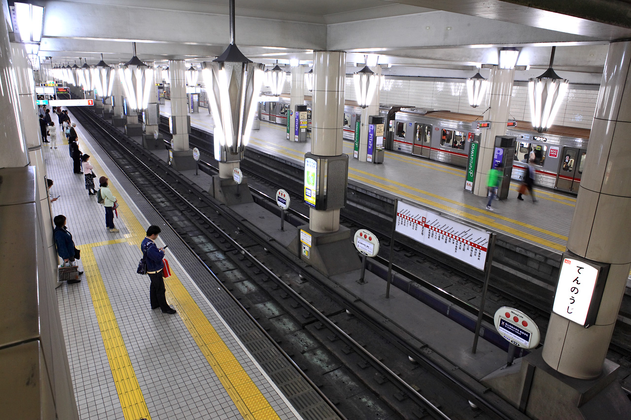 Osaka Municipal Subway Tennoji Station